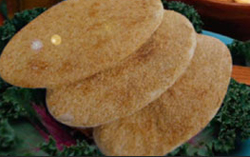 delicious